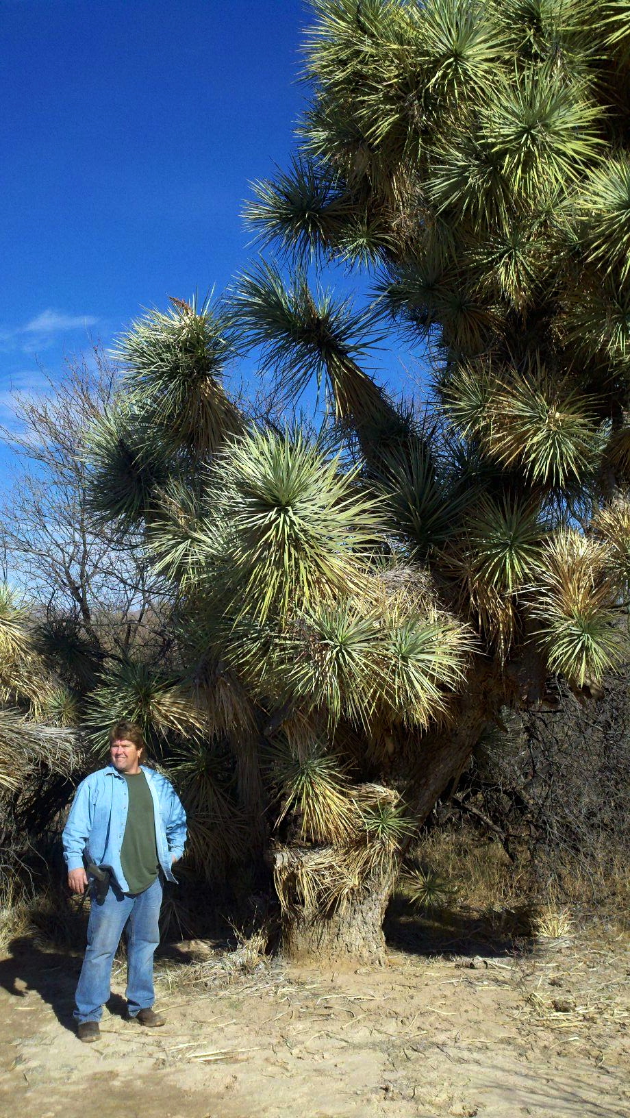 This is a picture of a Joshua Tree at Grapevine Springs Ranch AZ, near Alamo Lake. It is believed to be Yucca decipiens